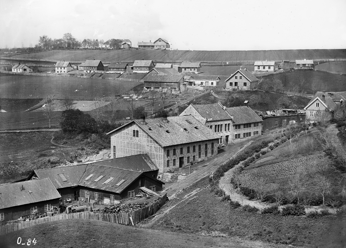 Kværner Brug in 1870